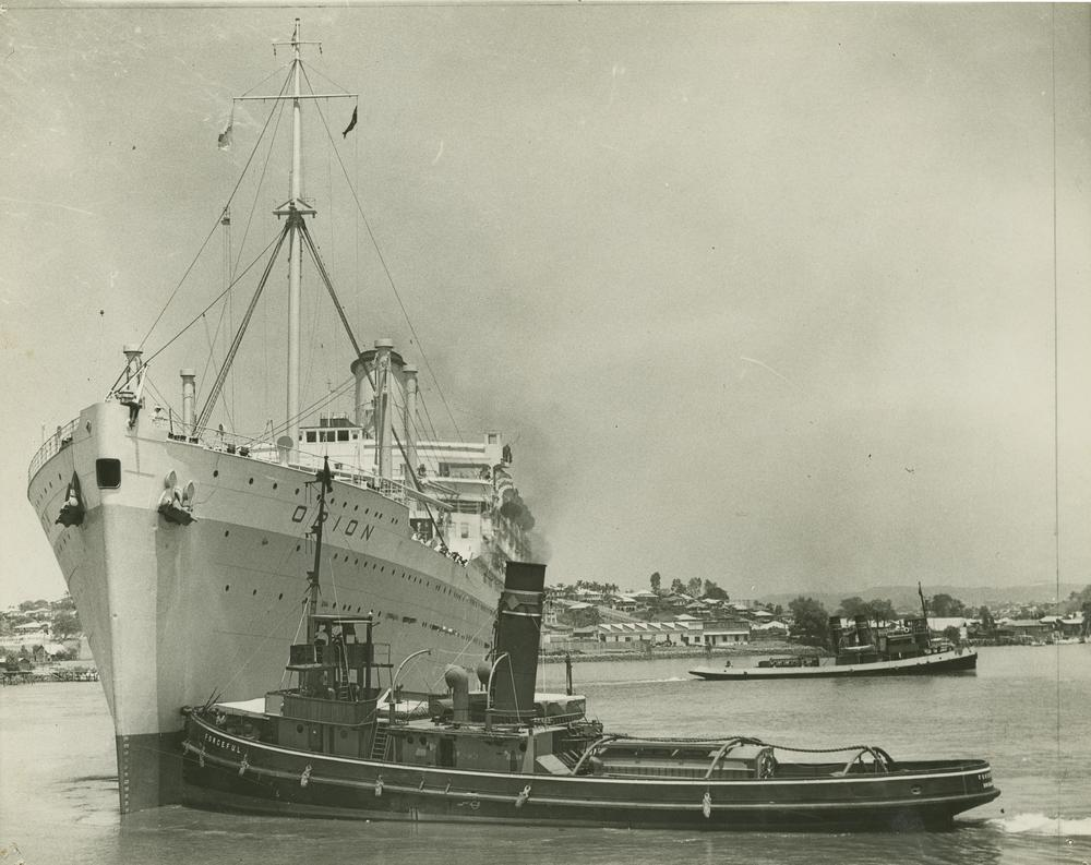 Cruise liner Orion is being turned in the Brisbane River by the tugboat Forceful